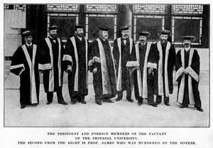 The president and foreign members of faculty of the imperial university of Peking